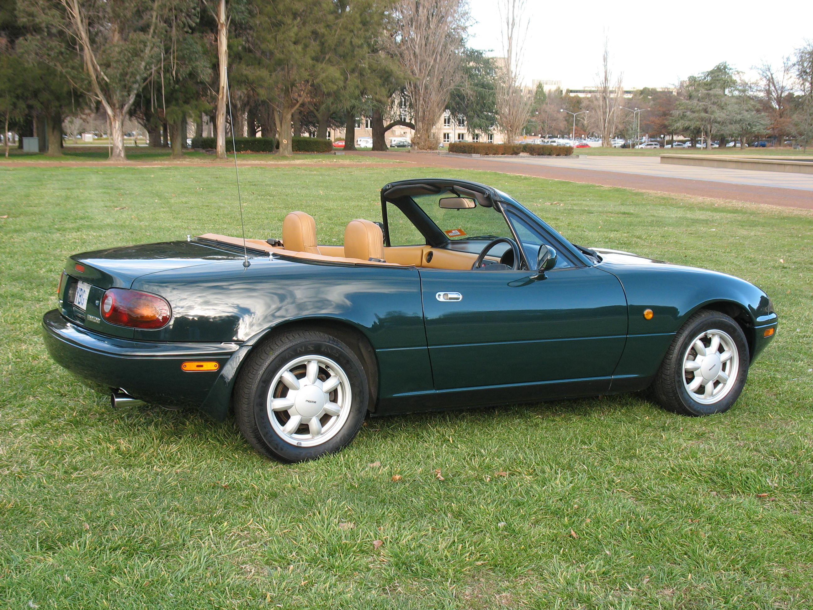 1990–1991 Mazda MX-5 (NA) Limited Edition convertible, photographed in Australia.